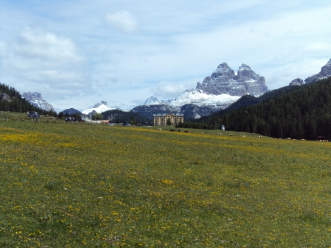 Misurina